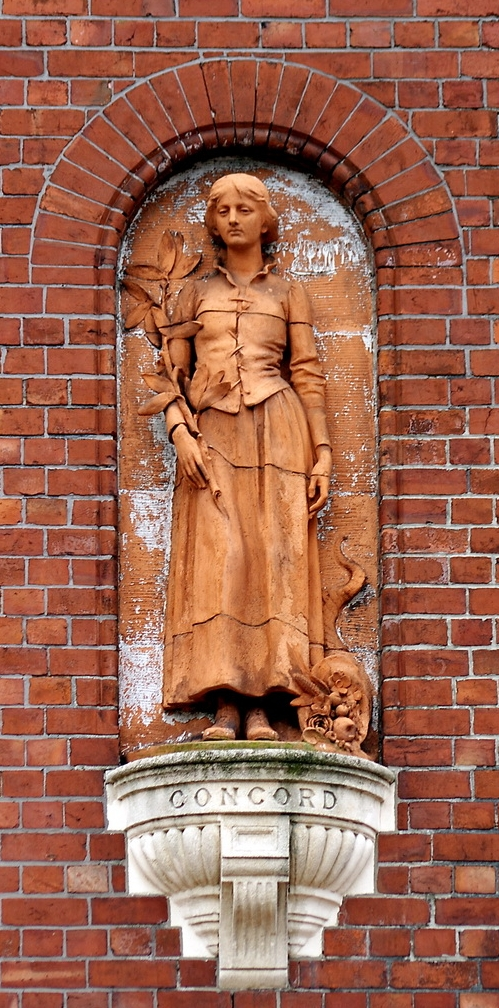 Detail of a statue of Concord, on the former Council Municipal Chambers, now the Our City O-Tautahi building, in Christchurch, New Zealand. This terracotta sculpture, and another next to it of 'Industry', were created by George Frampton (later Sir), famous for his statue of Peter Pan in Kensington Gardens in London, and were purchased by the council after being shown in an international exhibition in Christchurch in 1882.